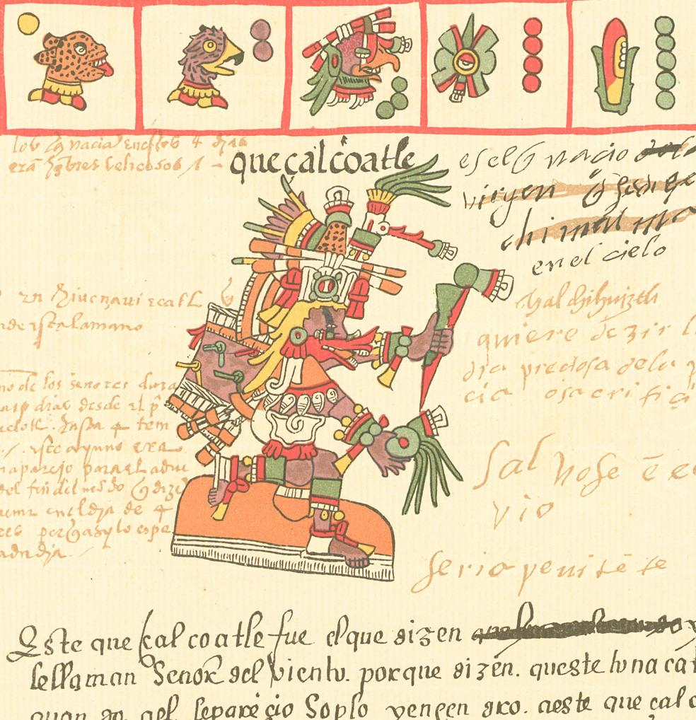 The Aztec god Quetzalcoatl as depicted in the Codex Telleriano-Remensis (16th century).